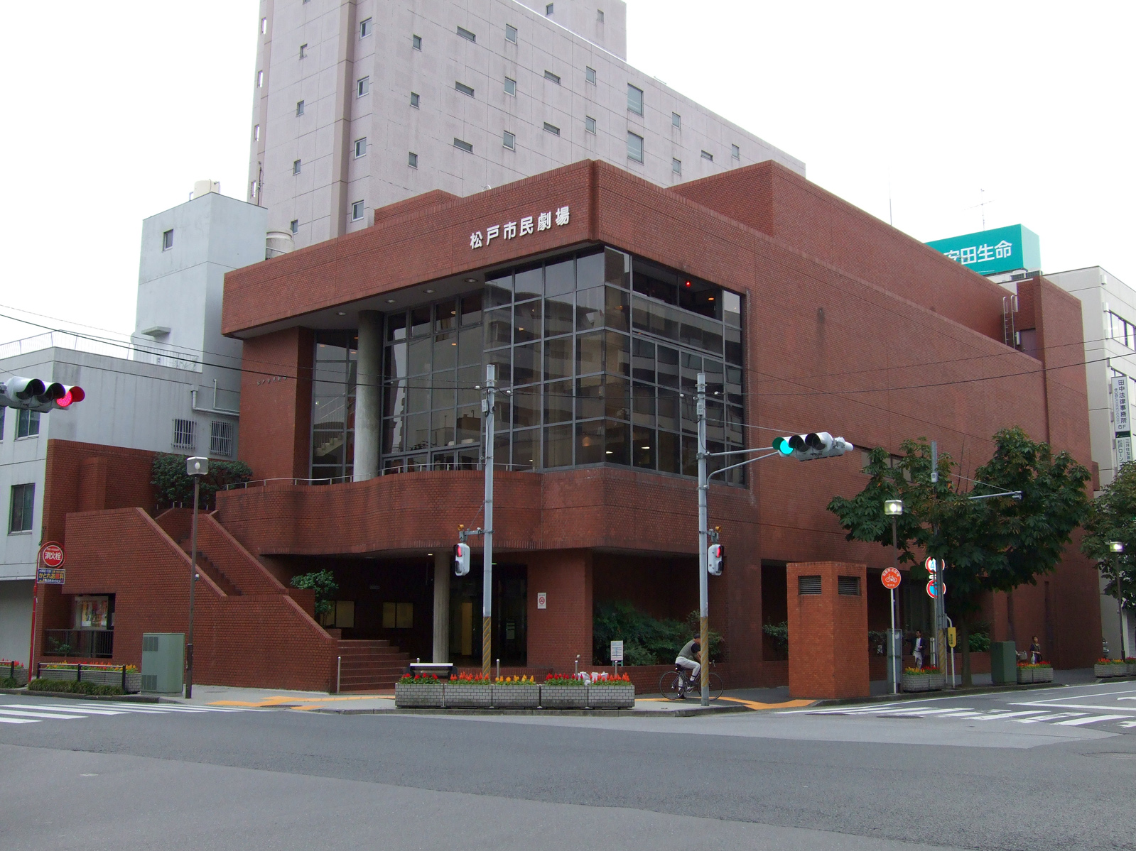 Matsudo Municipal Theater